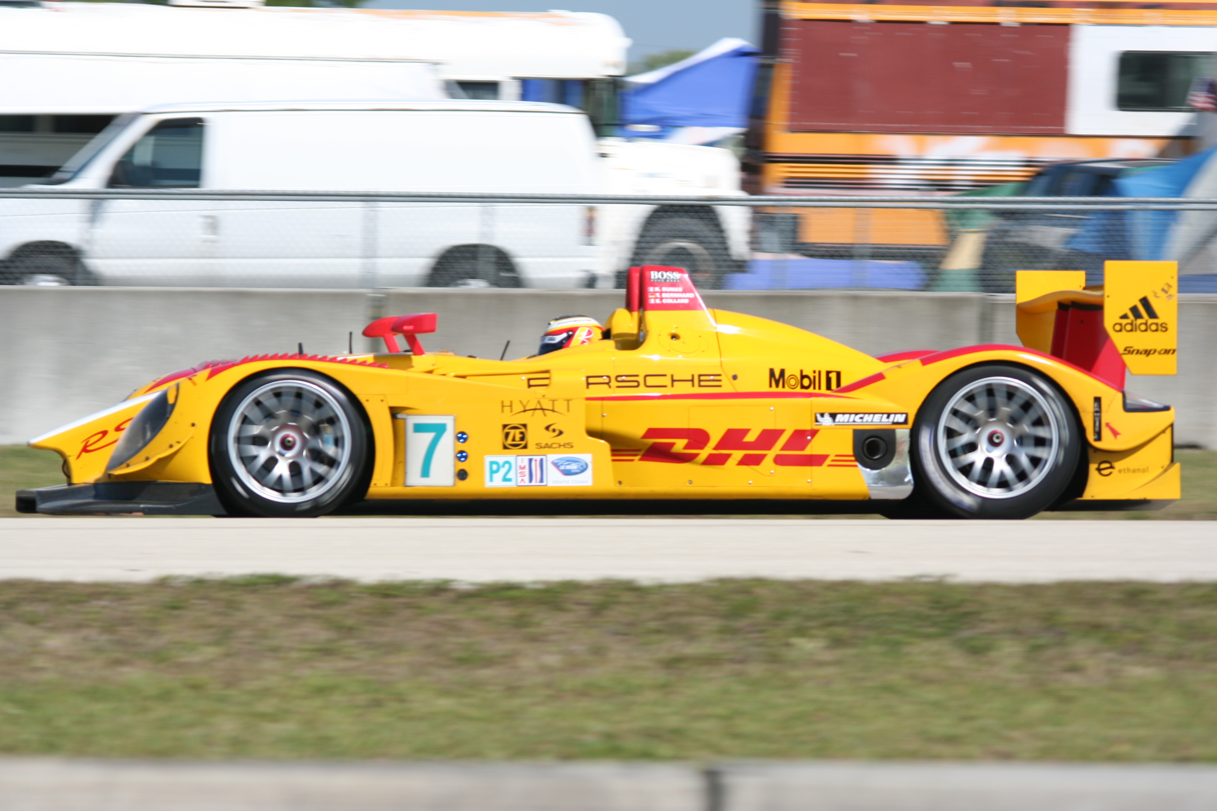 The overall winner of the w:2008 12 Hours of Sebring despite being in the second highest LMP2 class. Shot by "The Daredevil" at the 2008 12 Hours of Sebring event